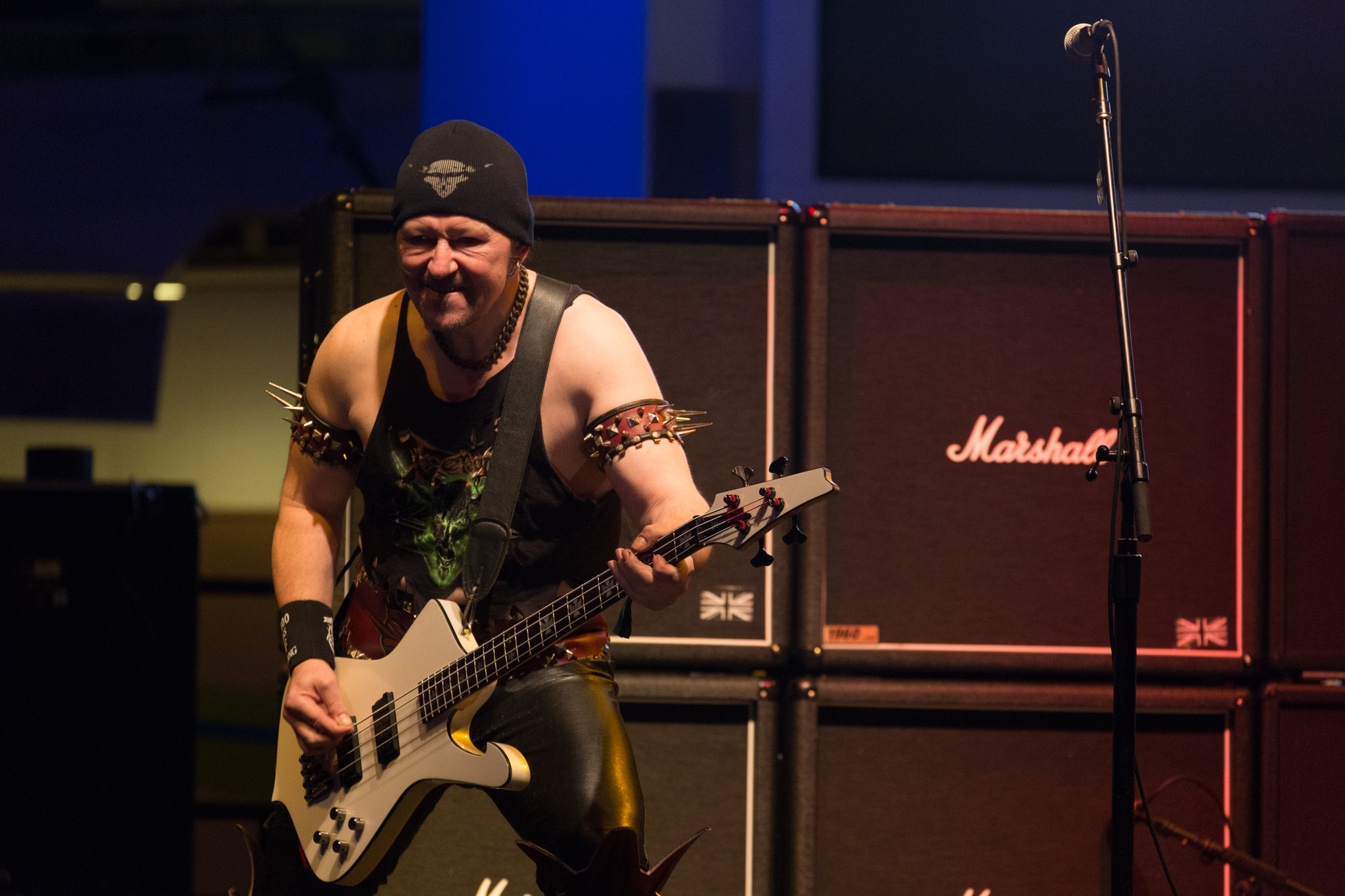 Venom performing at 70.000 tons of metal, january 2015